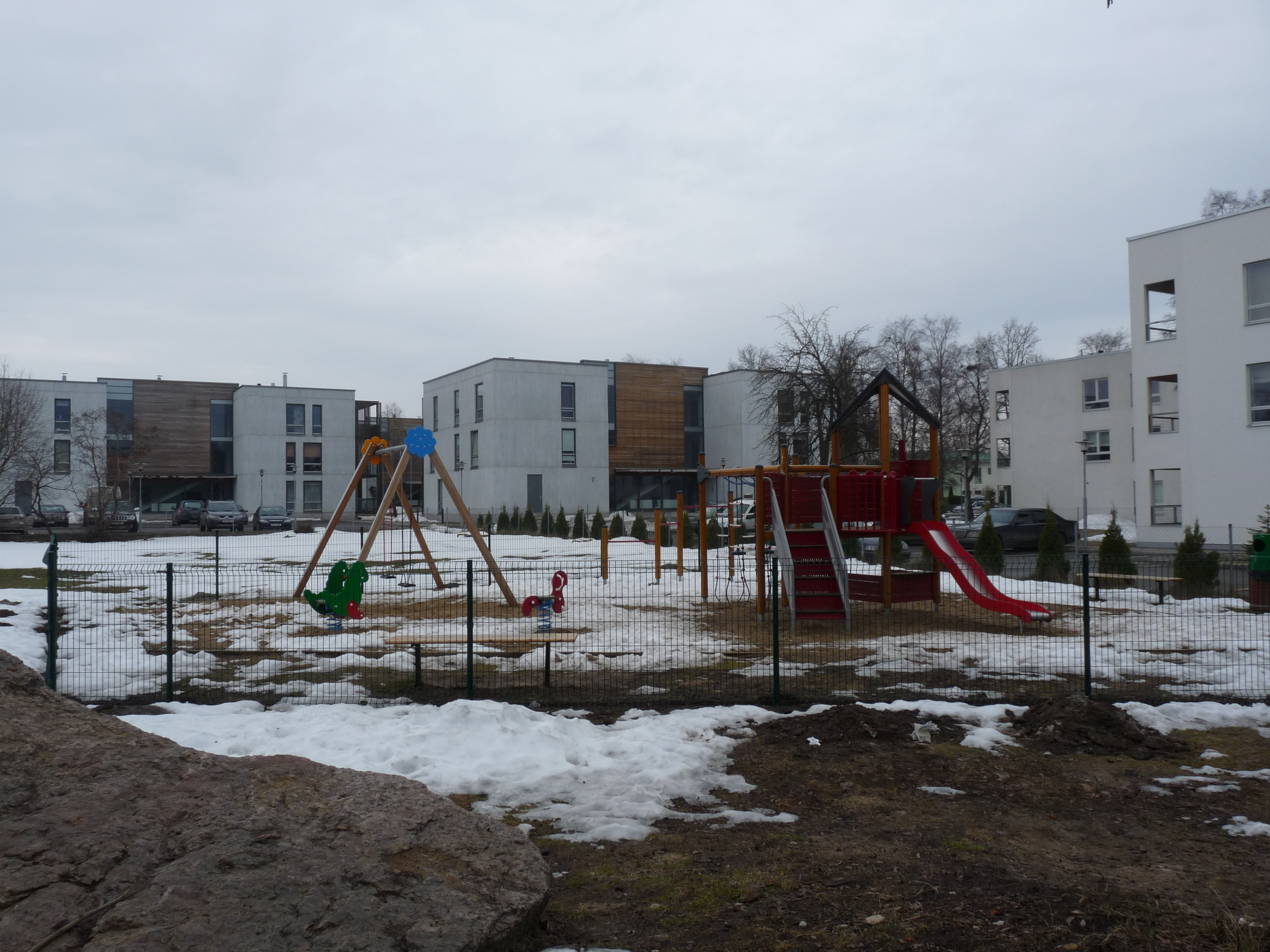 Playground in Maarjamäe